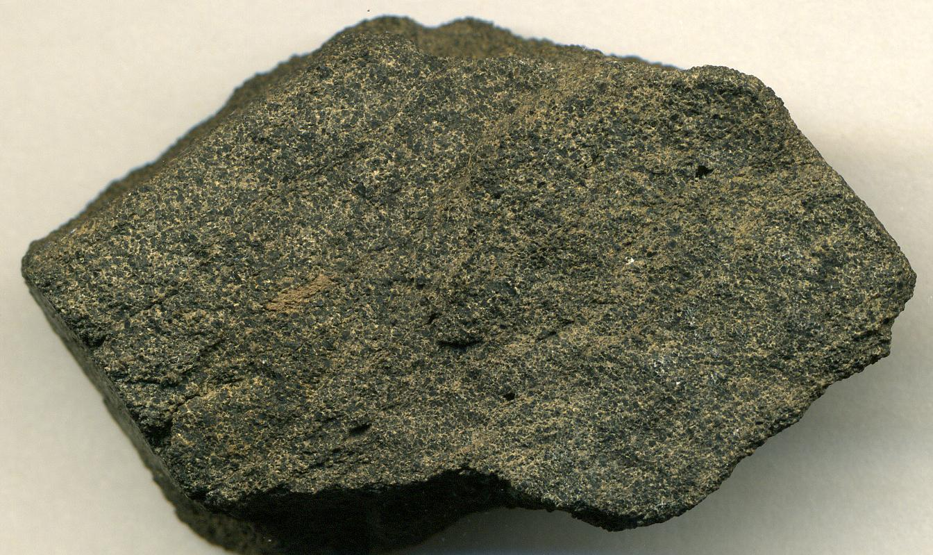 This rock has economic value - it’s a phosphate ore. The Phosphoria Formation is extensively mined in the Southeast Idaho Phosphate District. Phosphate and elemental phosphorus derived from processing of phosphorite rocks are used to make agricultural fertilizers and industrial chemicals. The Phosphoria Formation is the most famous phosphorite unit in America. On a global scale, phosphorite deposition was at its maximum, volumetrically, during the Neoproterozoic and Cambrian (see Zhongyicun Member phosphorite specimen).